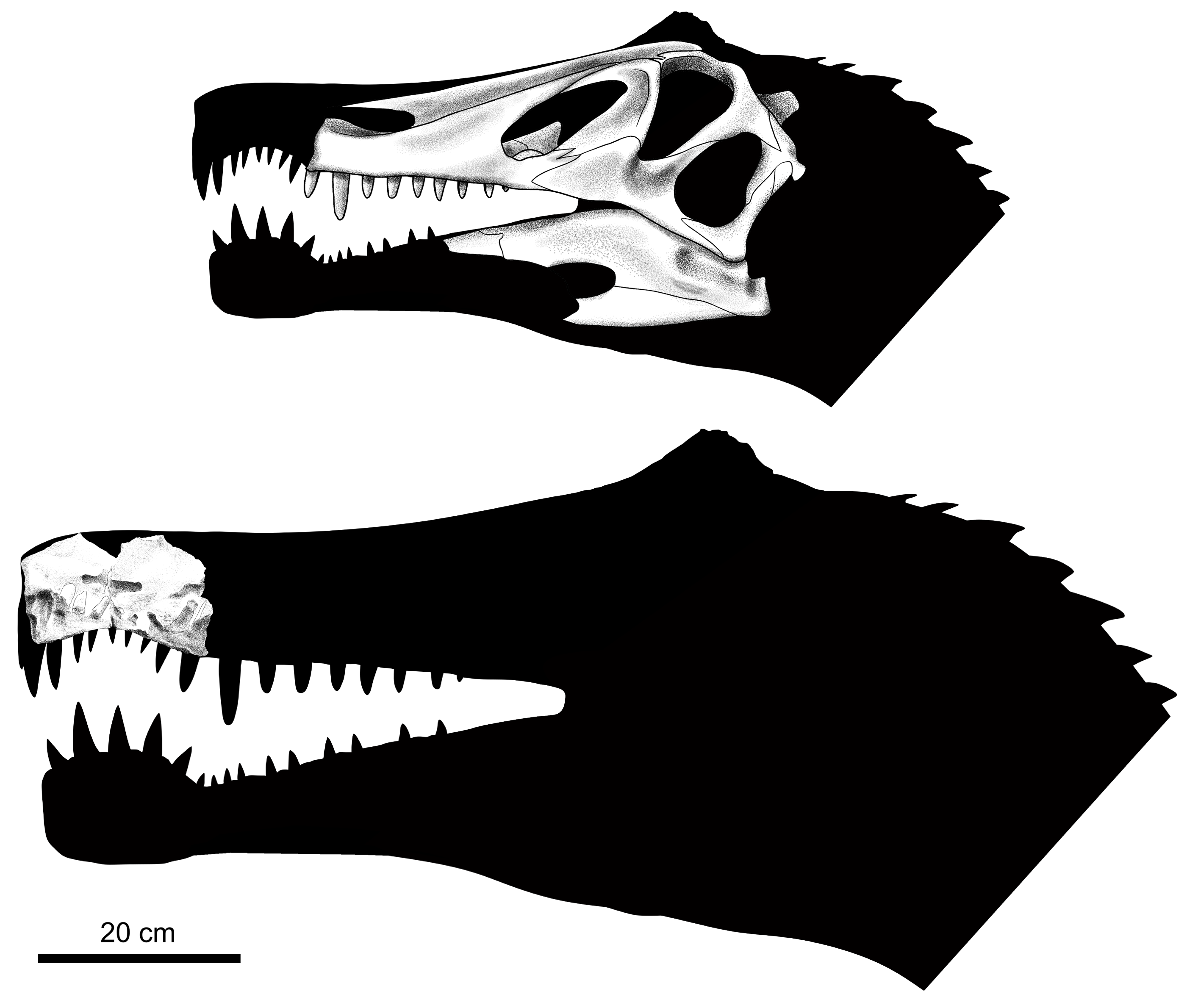 A, Reconstruction of specimen SMNS 58022, the holotype of Irritator challengeri. B, Specimen USP GP/2T-5, the holotype of Angaturama limai. A is modified from Sues et al. (2002)